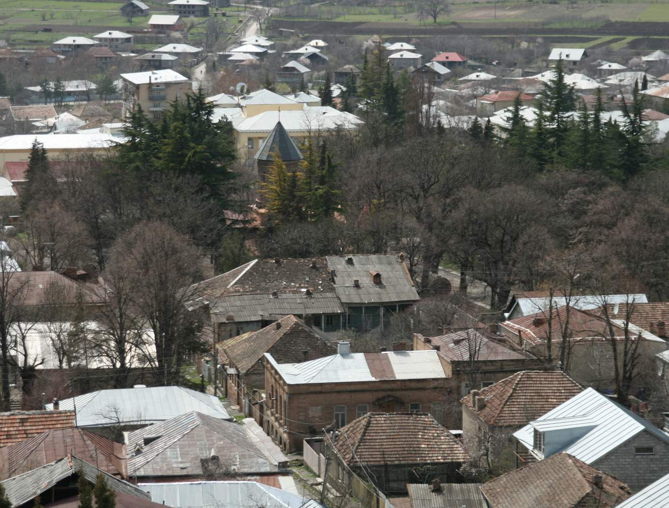 Dusheti, Georgia